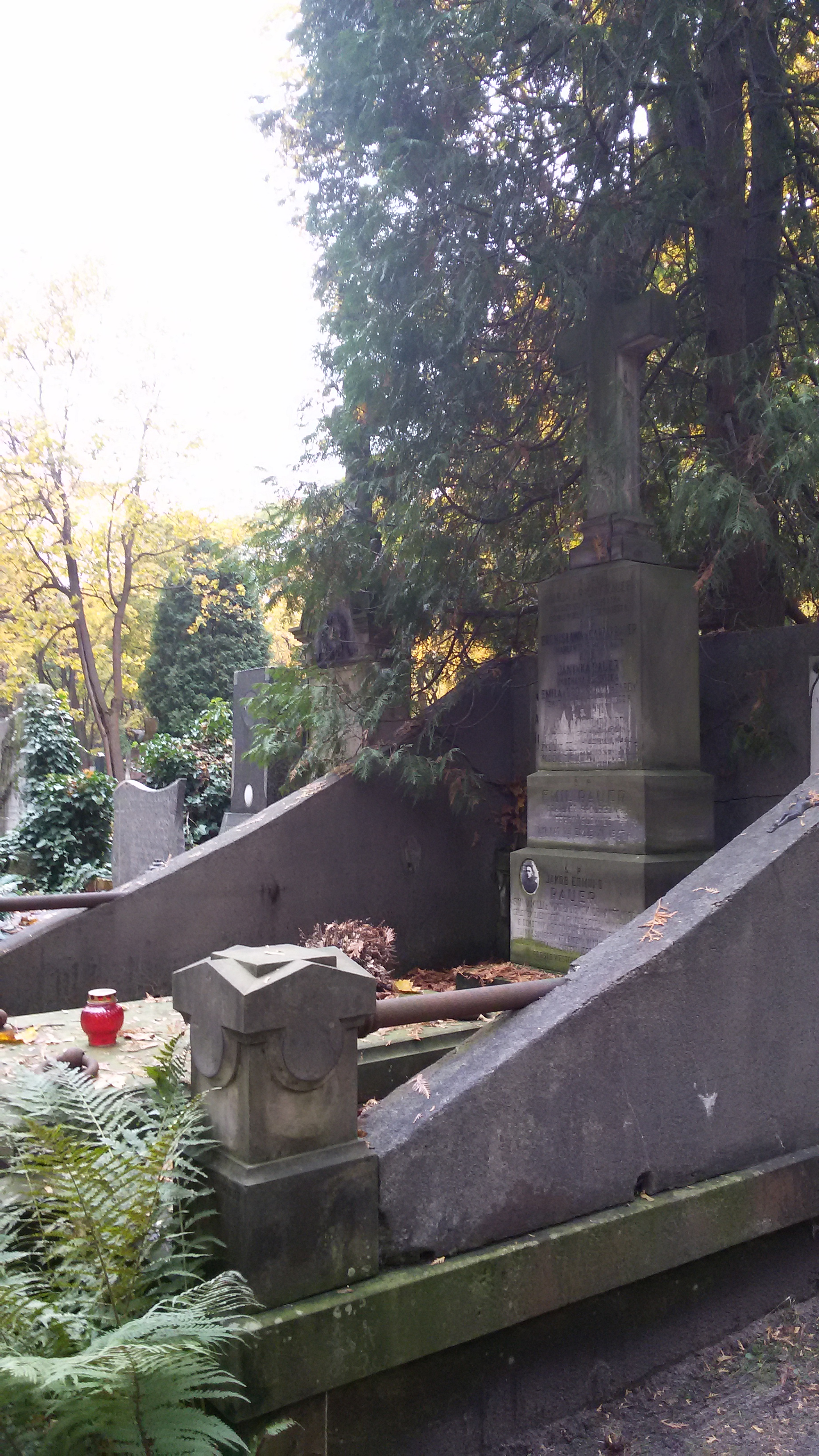 Grave of Emil Rauer, Powązki Cemetery, Warsaw, Fall 2017